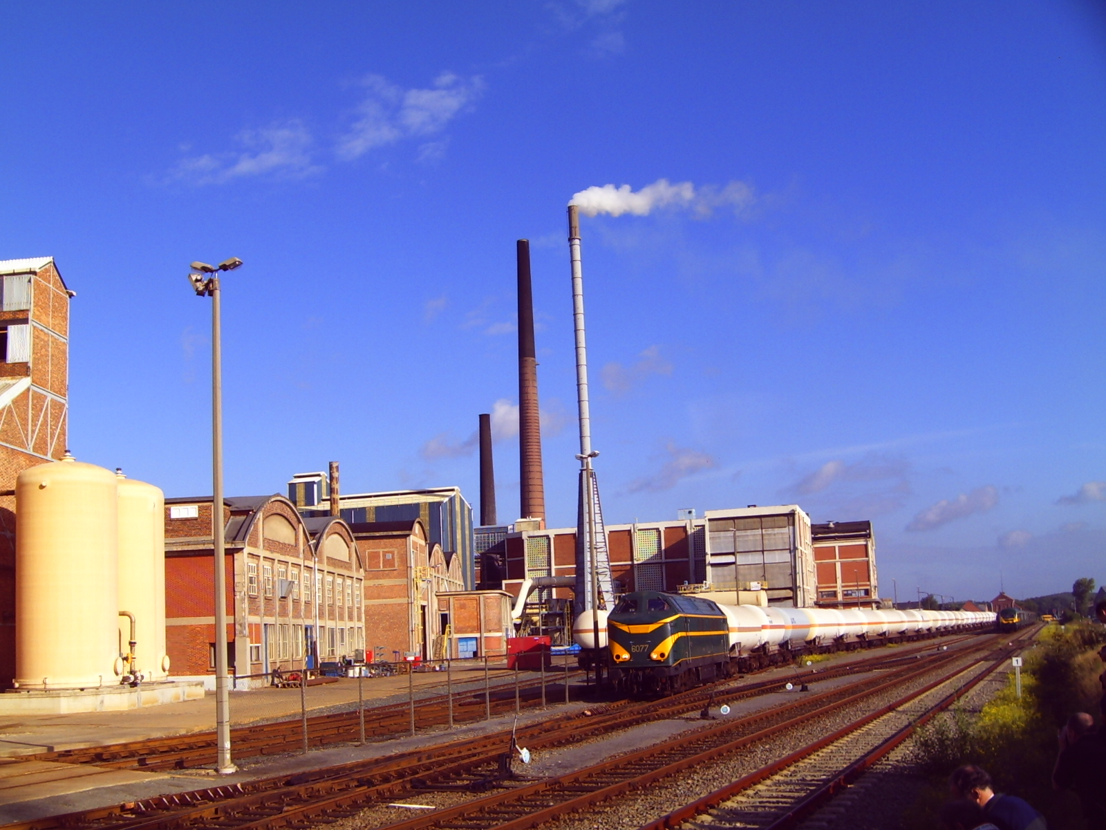 Freight train (headed by diesel engine 6077 [1] in Tessenderlo, Belgium. Chemical plant of Tessenderlo Group is in the background.